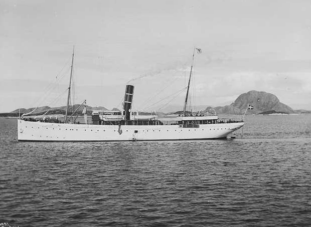 Norwegian passengership DS Kong Harald built in 1890. Later, this ship sailed in the coastal express service (Hurtigruten) between 1919 and 1950.